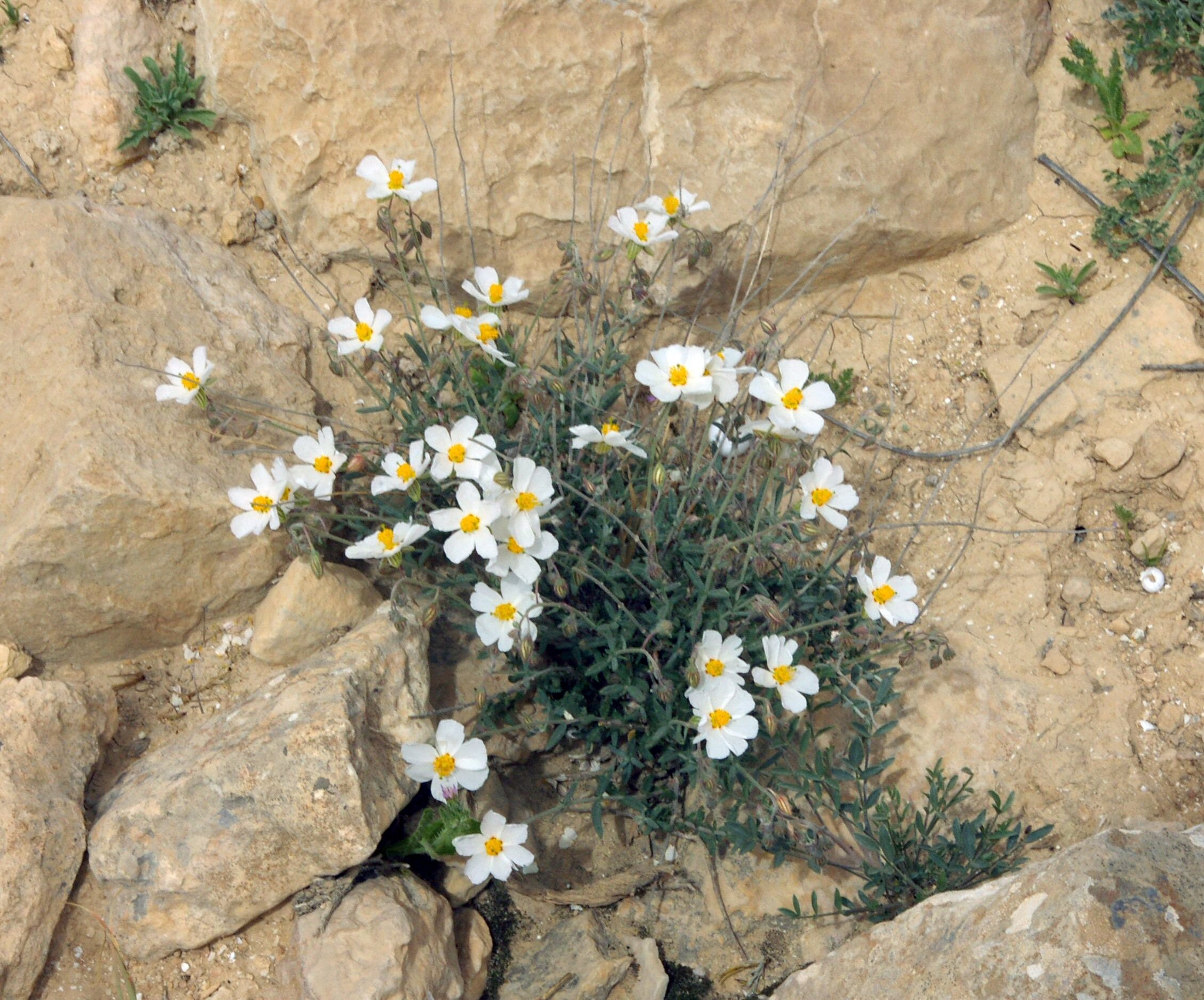 white Helianthemum vesicarium